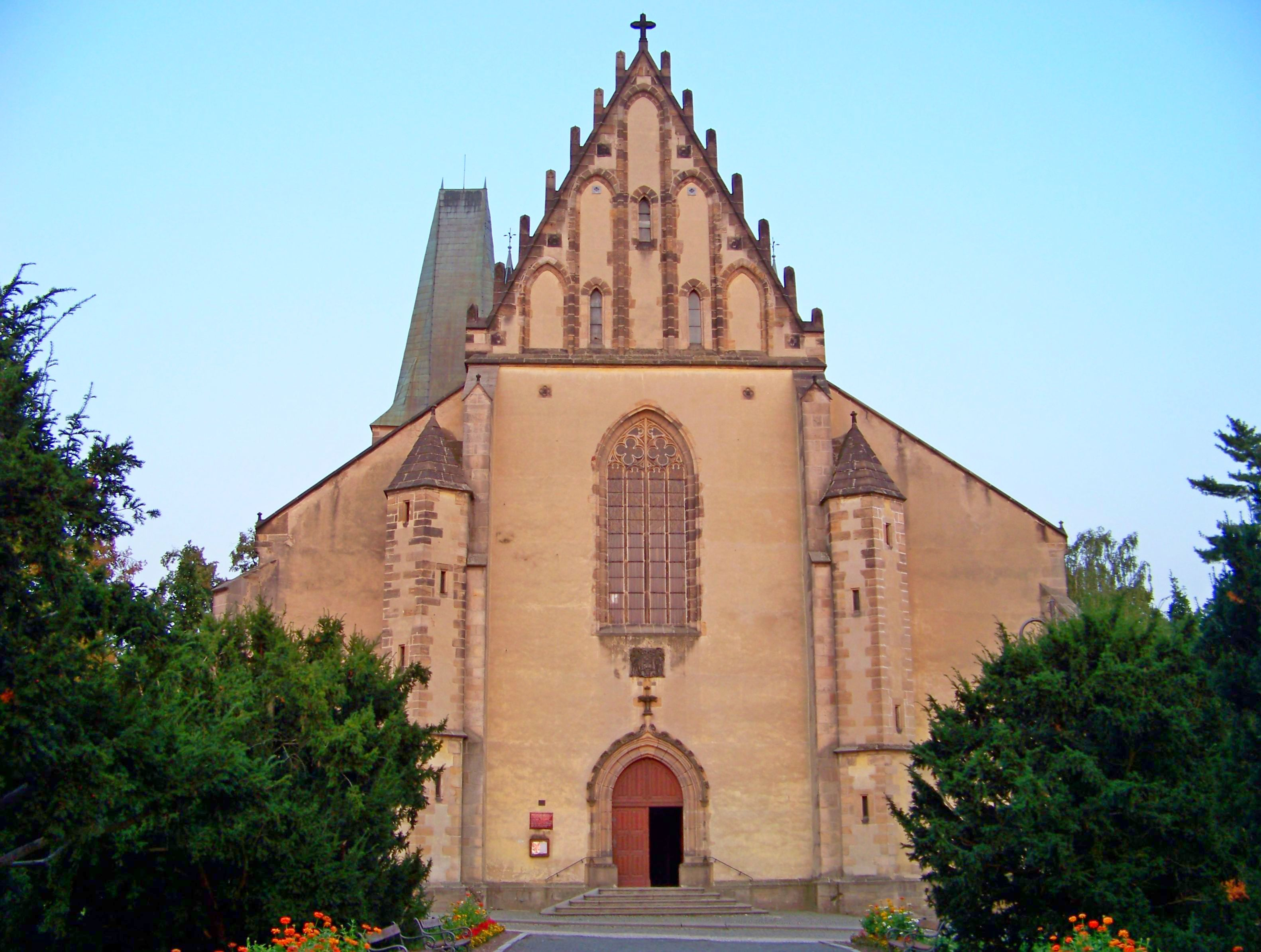 Rakovník I, Rakovník District, Central Bohemian Region, the Czech Republic. Church of Saint Bartholomew.